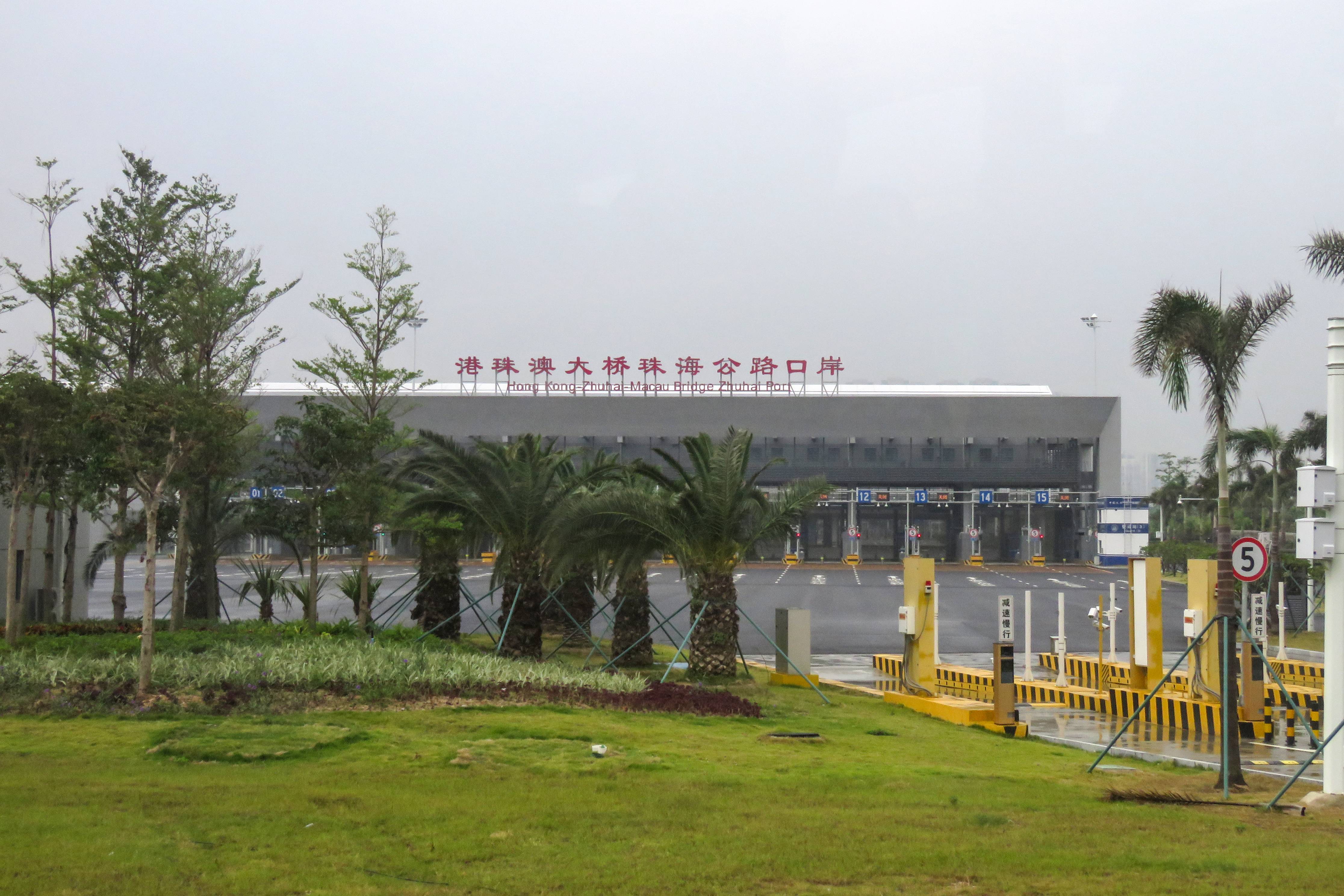 Why is it CRLi here?